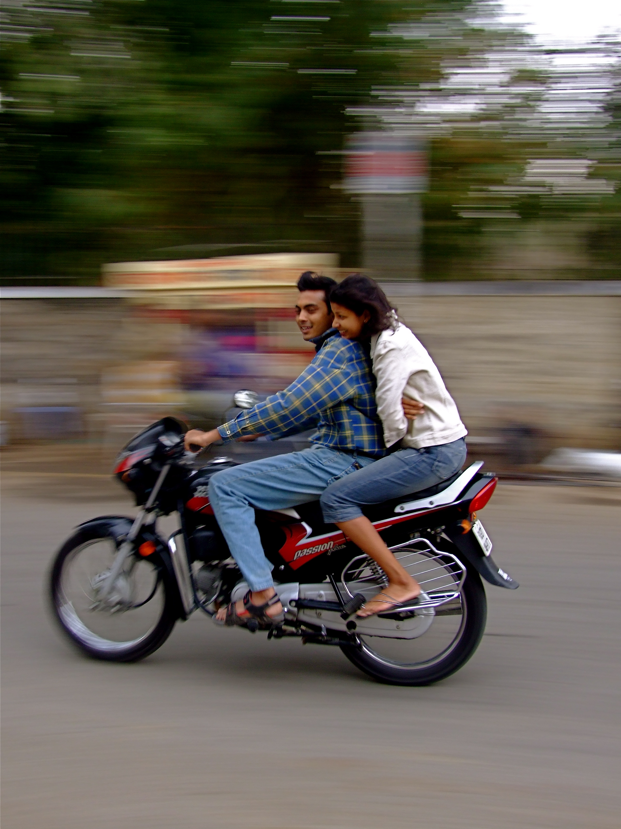 Couple on a motorcycle in Rajasthan, India